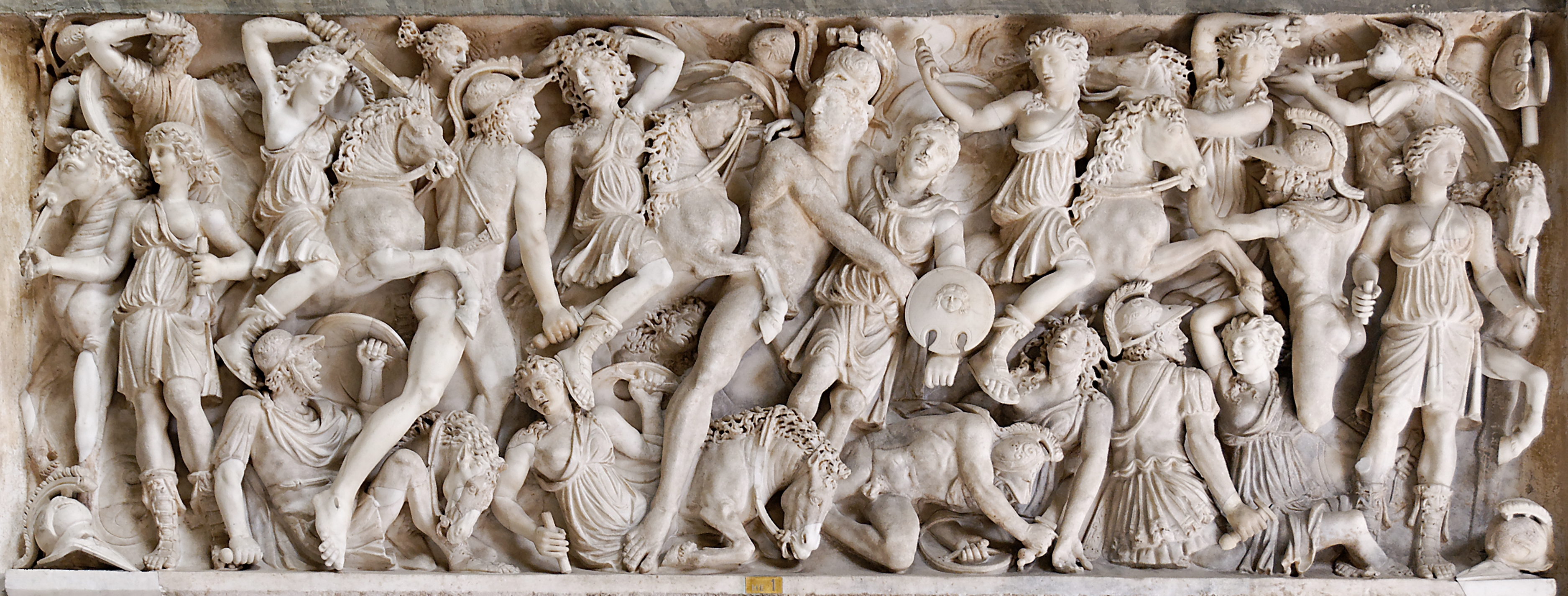 Scene from the Trojan War: Greeks fighting the Amazons; centre: Achilles and the dying Penthesilea. Panel of a marble sarcophagus, Roman artwork, 3rd century AD.